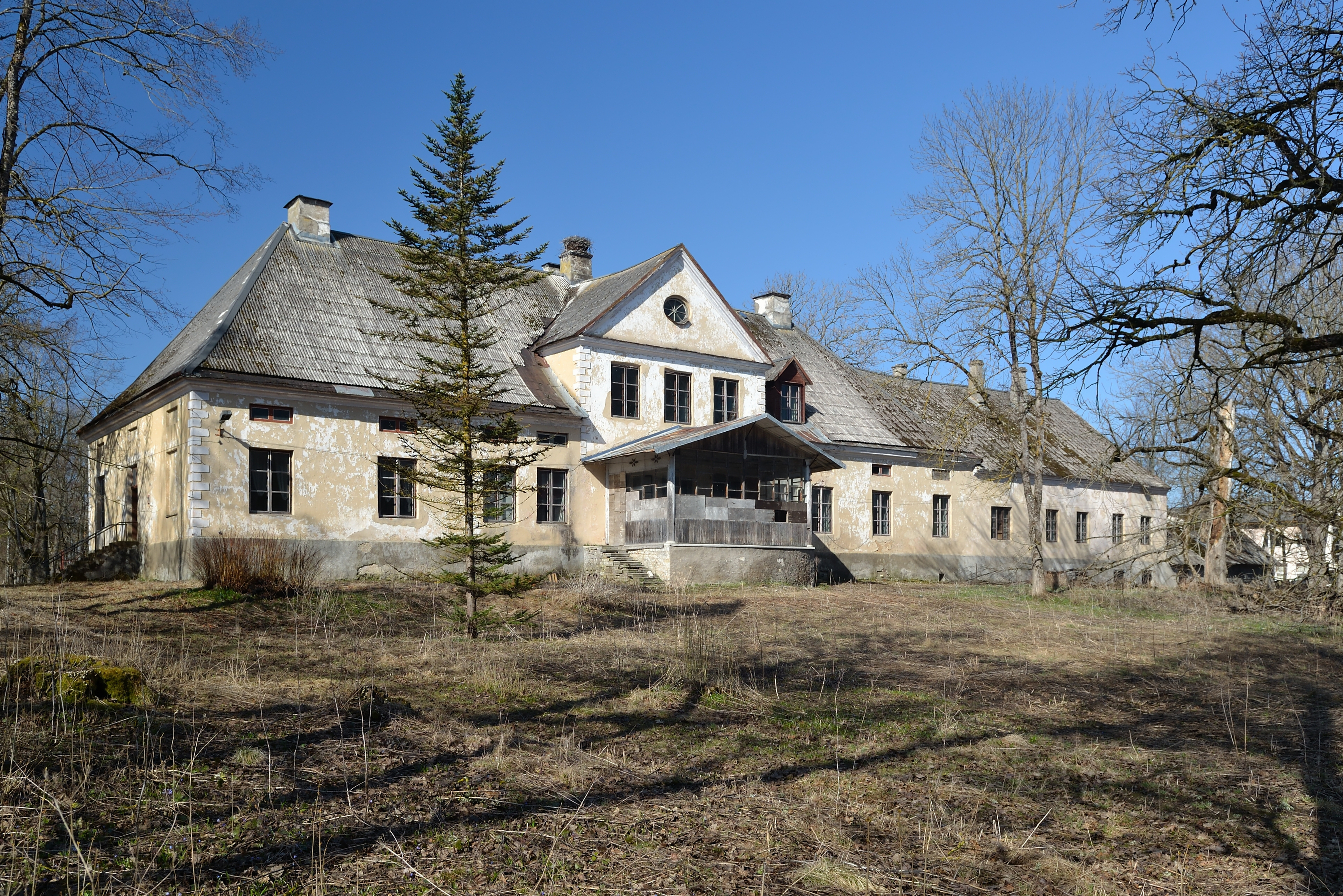 Karinu manor main building